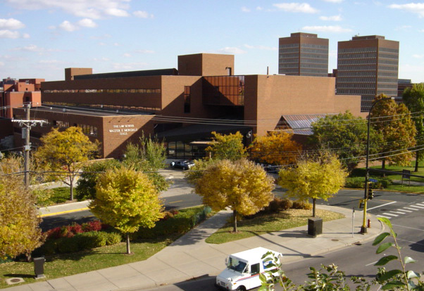 The University of Minnesota Law School's Walter F. Mondale Hall. October 15, 2003.